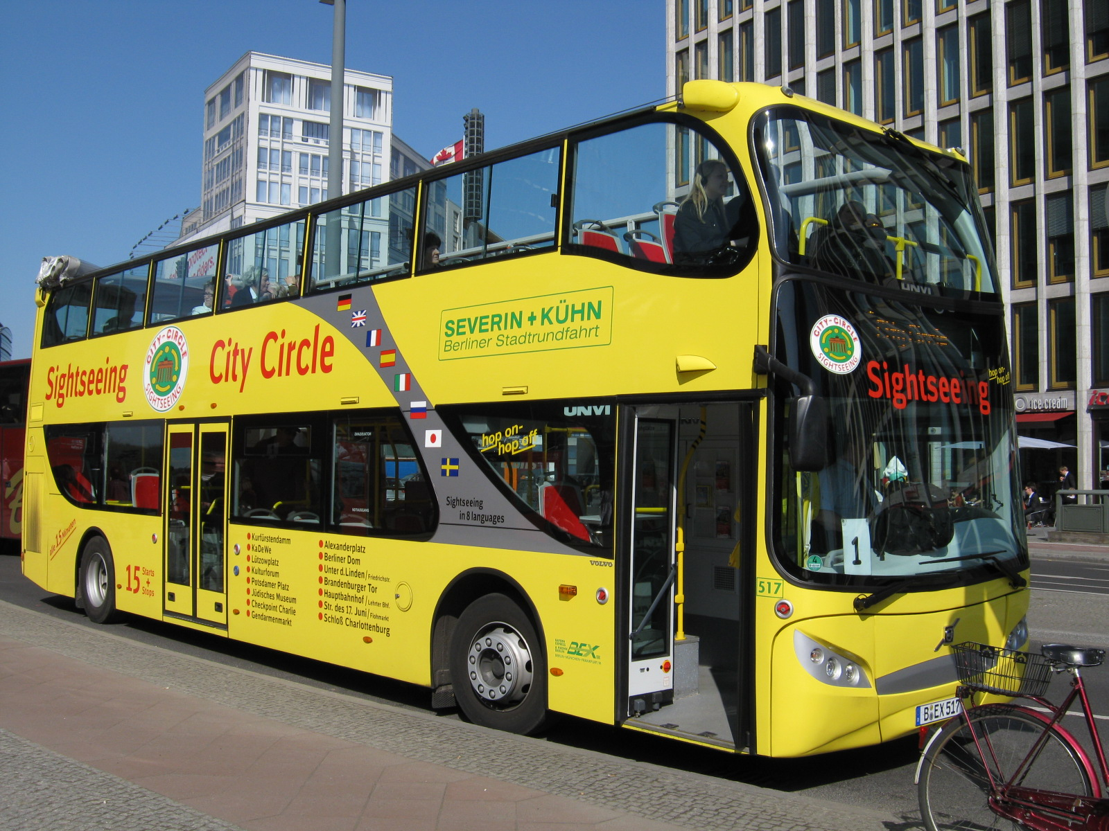 A Volvo B9TL double-decker running a sightseeing route in Berlin.